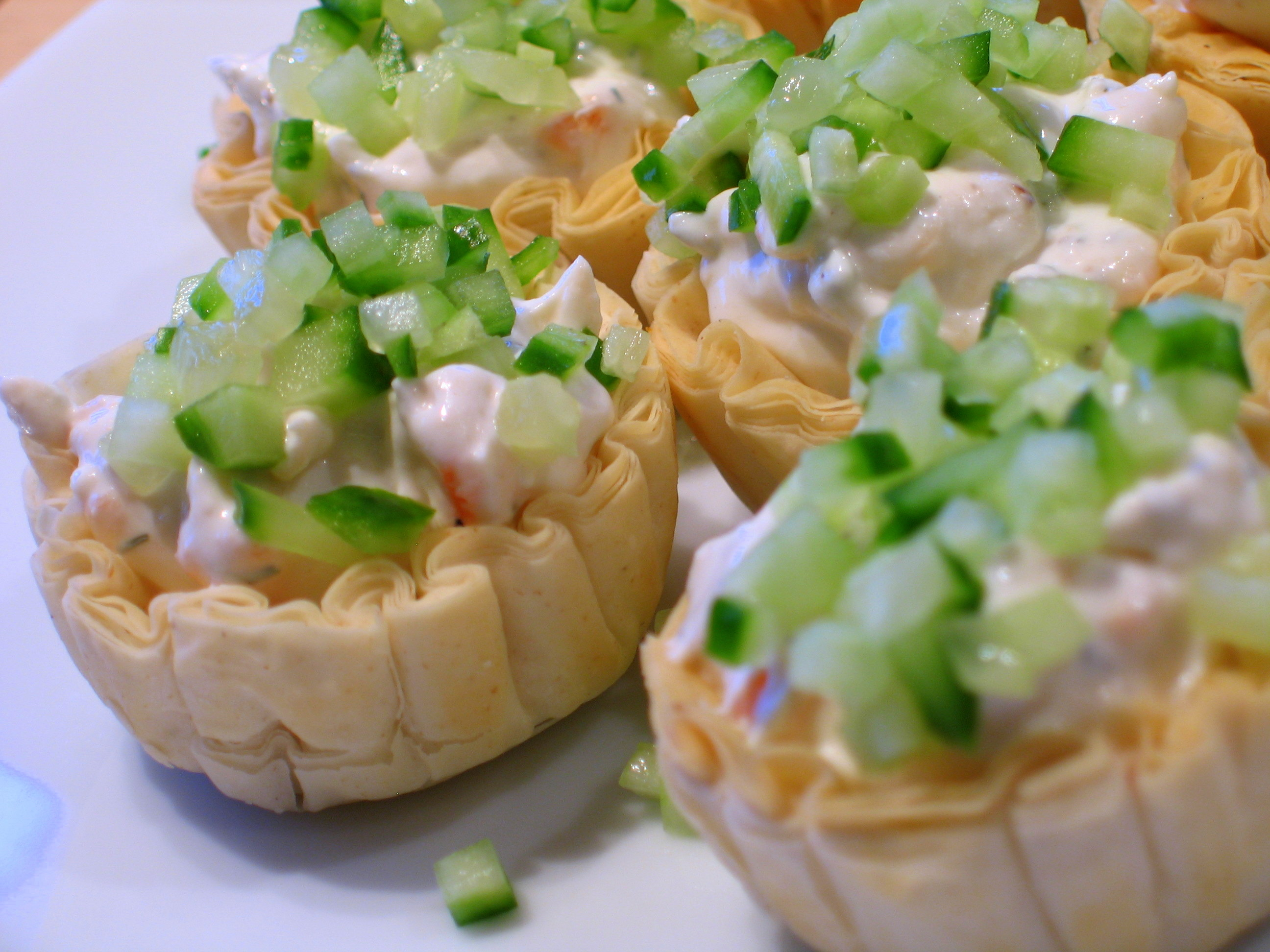 smoked salmon + chive + cream cheese + sour cream and cucumbers